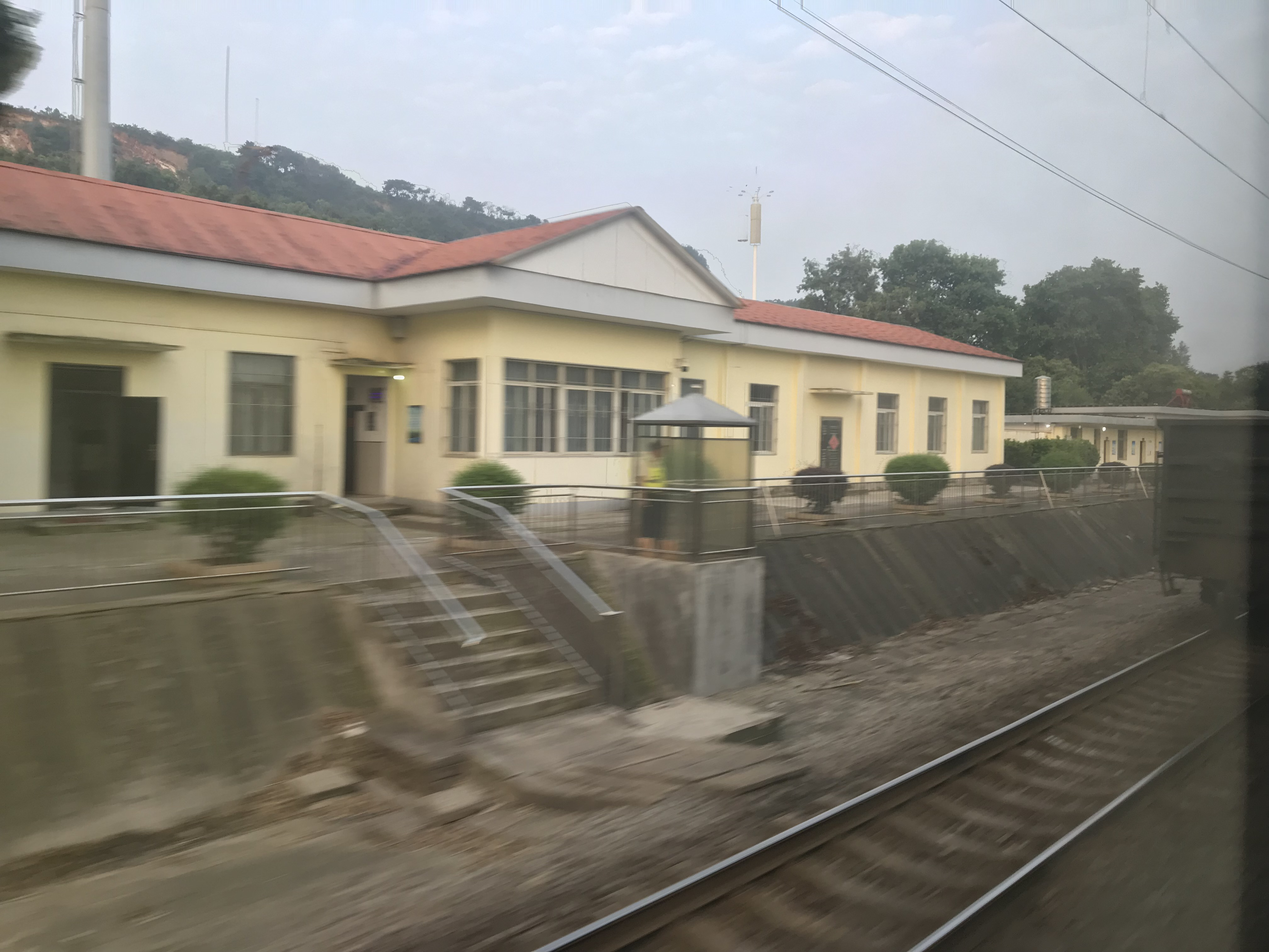 Hidden by a freight train